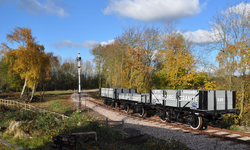 The Montsorrel Railway, near to Swithland, Leicestershire, Great Britain. The signalling improvements for the sidings and junction are still in progress (the signal is without arms). This is an ongoing project, originally envisaged by signalling enthusiast David Clarke. The recently cleared, relaid (ballast, track soon) Mountsorrel branch can be seen here. This is a separate preservation project that is supported by the railway. Originally it was built to serve the granodiorite quarry a couple of miles away. Three wagons have been restored and transformed into the granite company's livery. Eventually a small platform will be built and rides given in a small railcar like that at Weybourne. Weybourne railcar